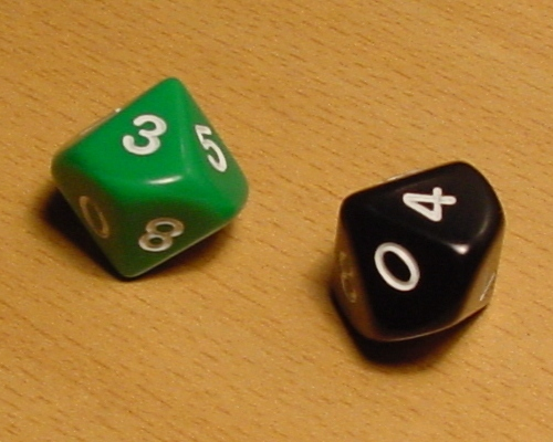 A couple of 10 sided dice